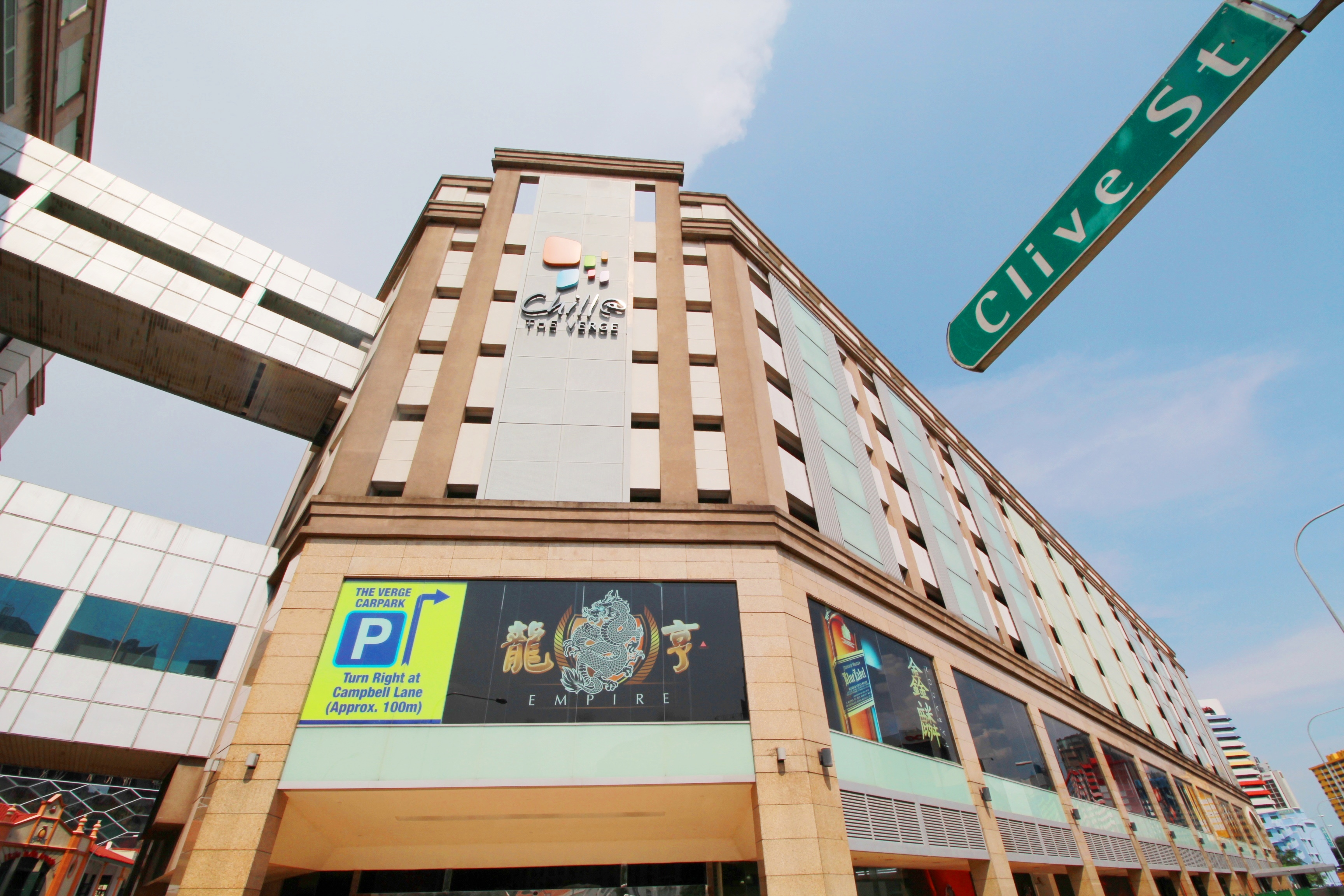 The Verge Shopping Mall, Little India, Singapore